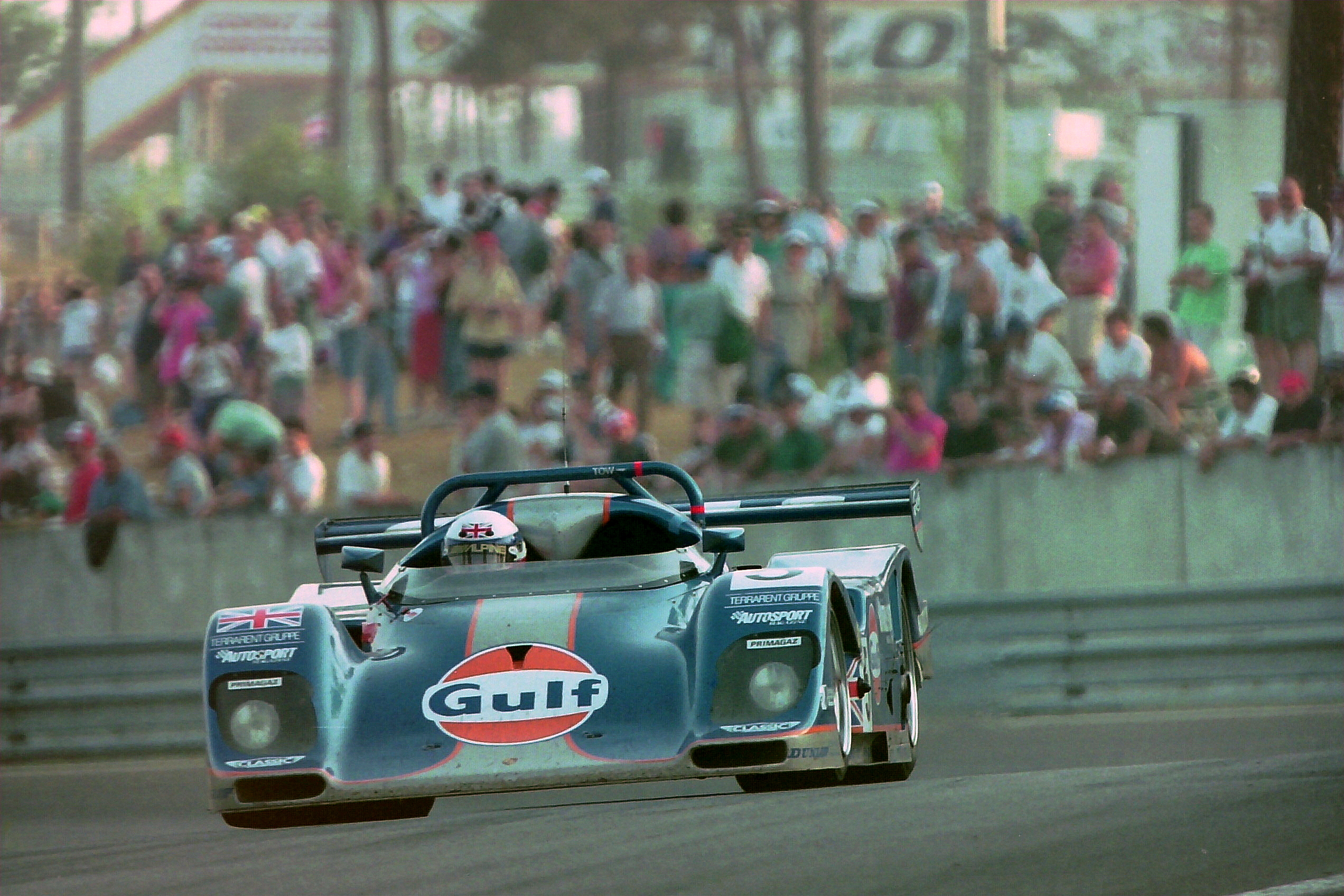 Kremer K8 - Derek Bell, Jurgen Lassig & Robin Donovan exits the Esses at the 1994 Le Mans